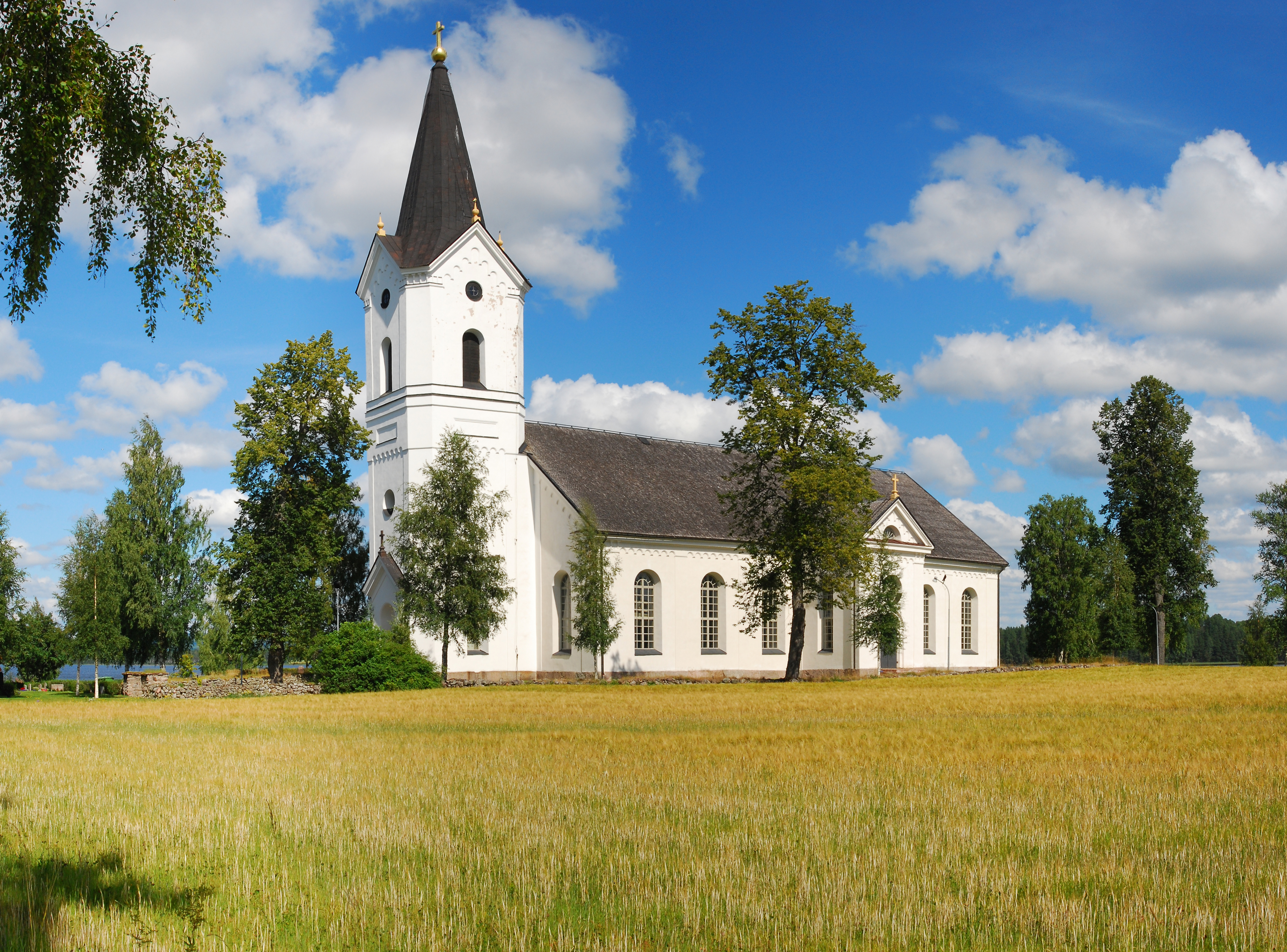 Ore church in Dalarna, Sweden